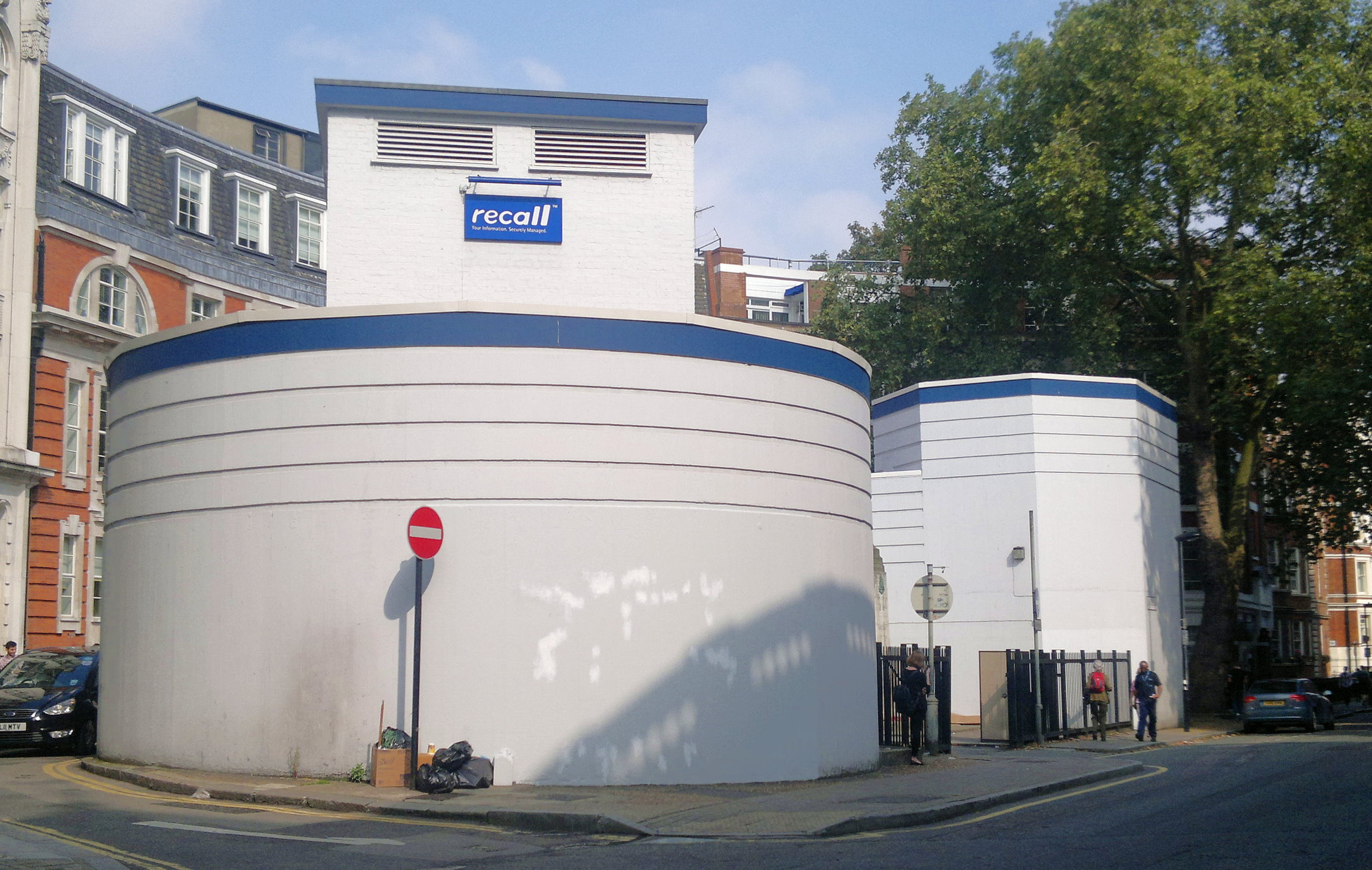 London deep-level shelter Chenies Street, London, WC1.